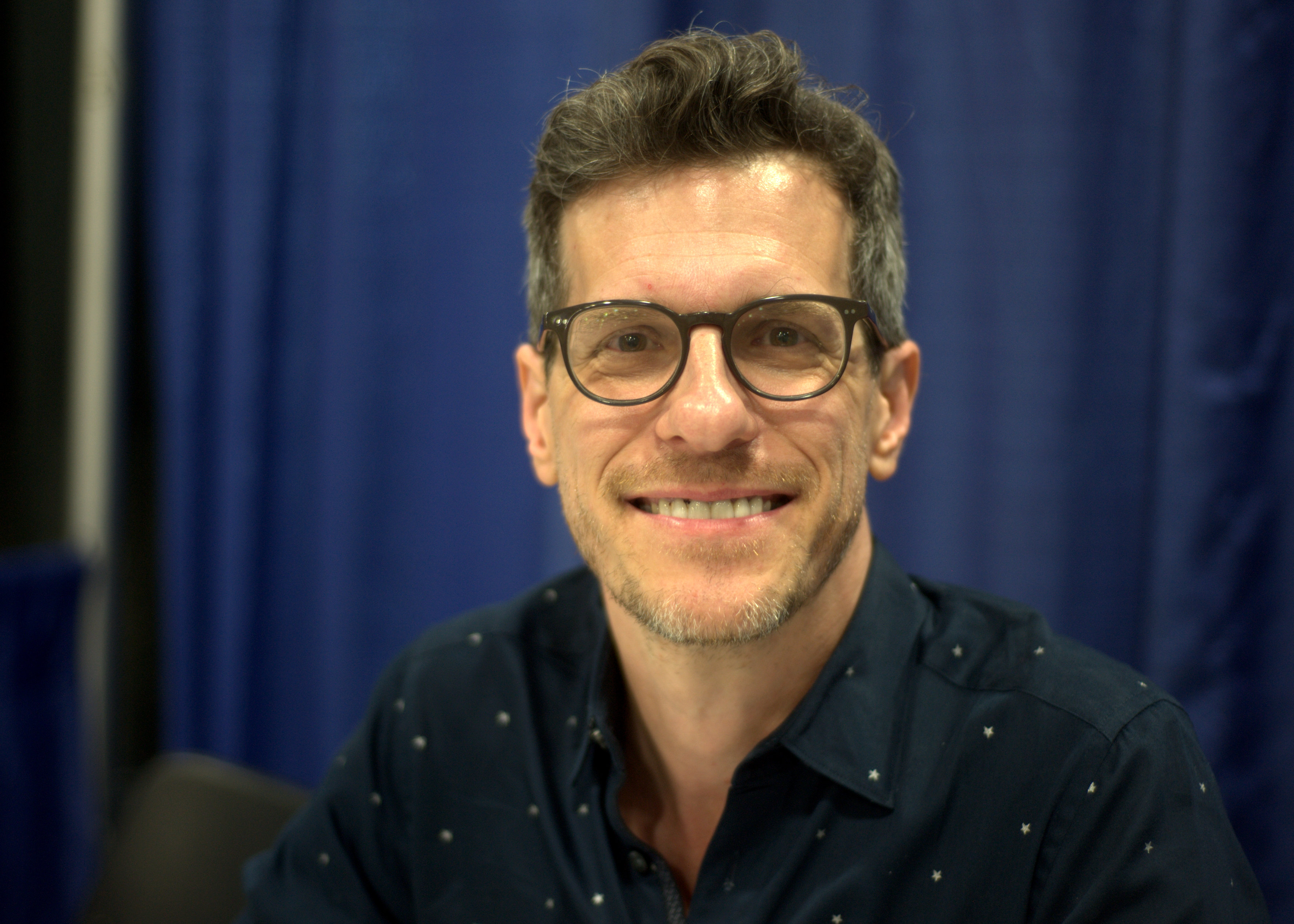 2018 National Book Festival